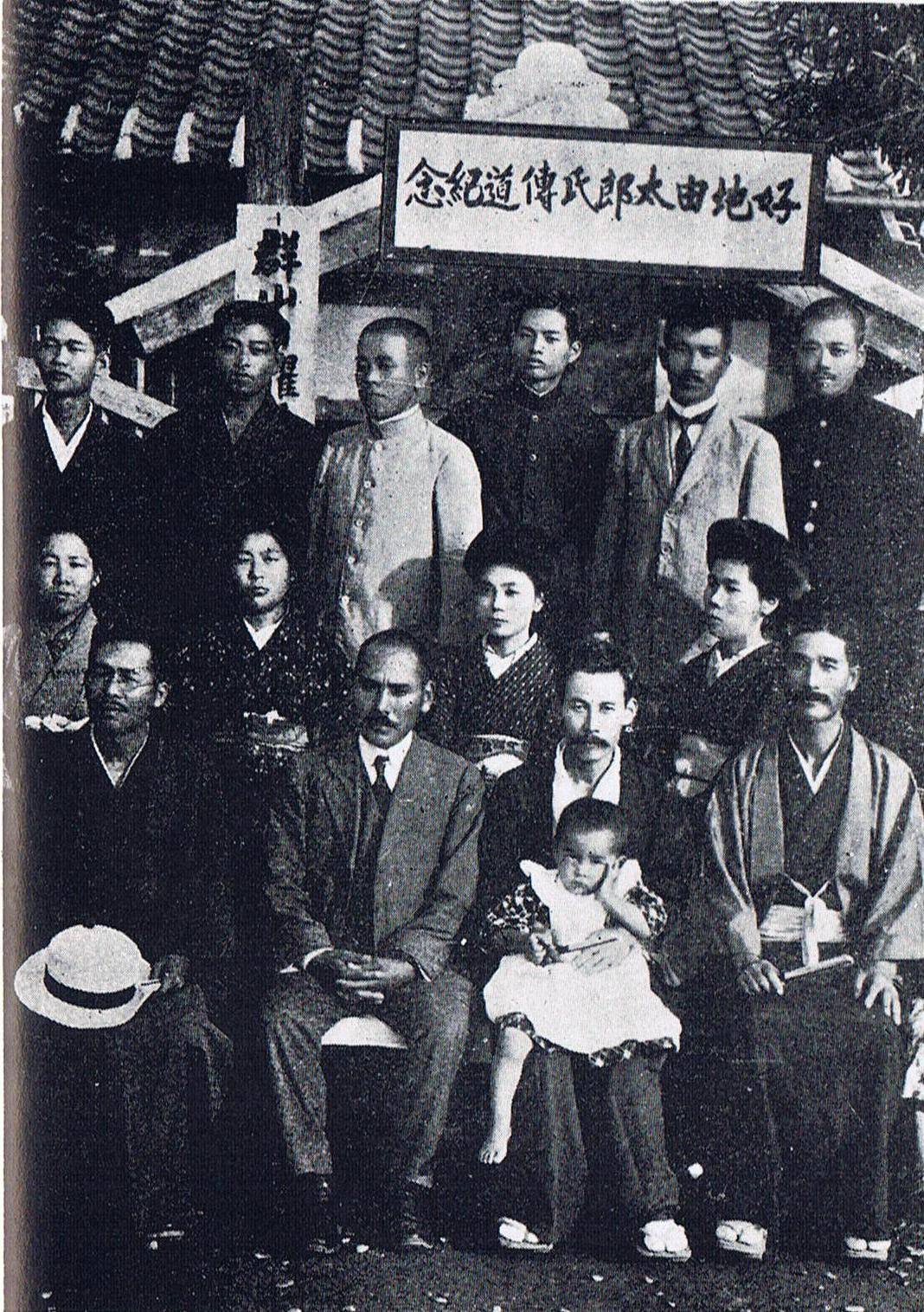 YOSHITI Yutaro evangelism